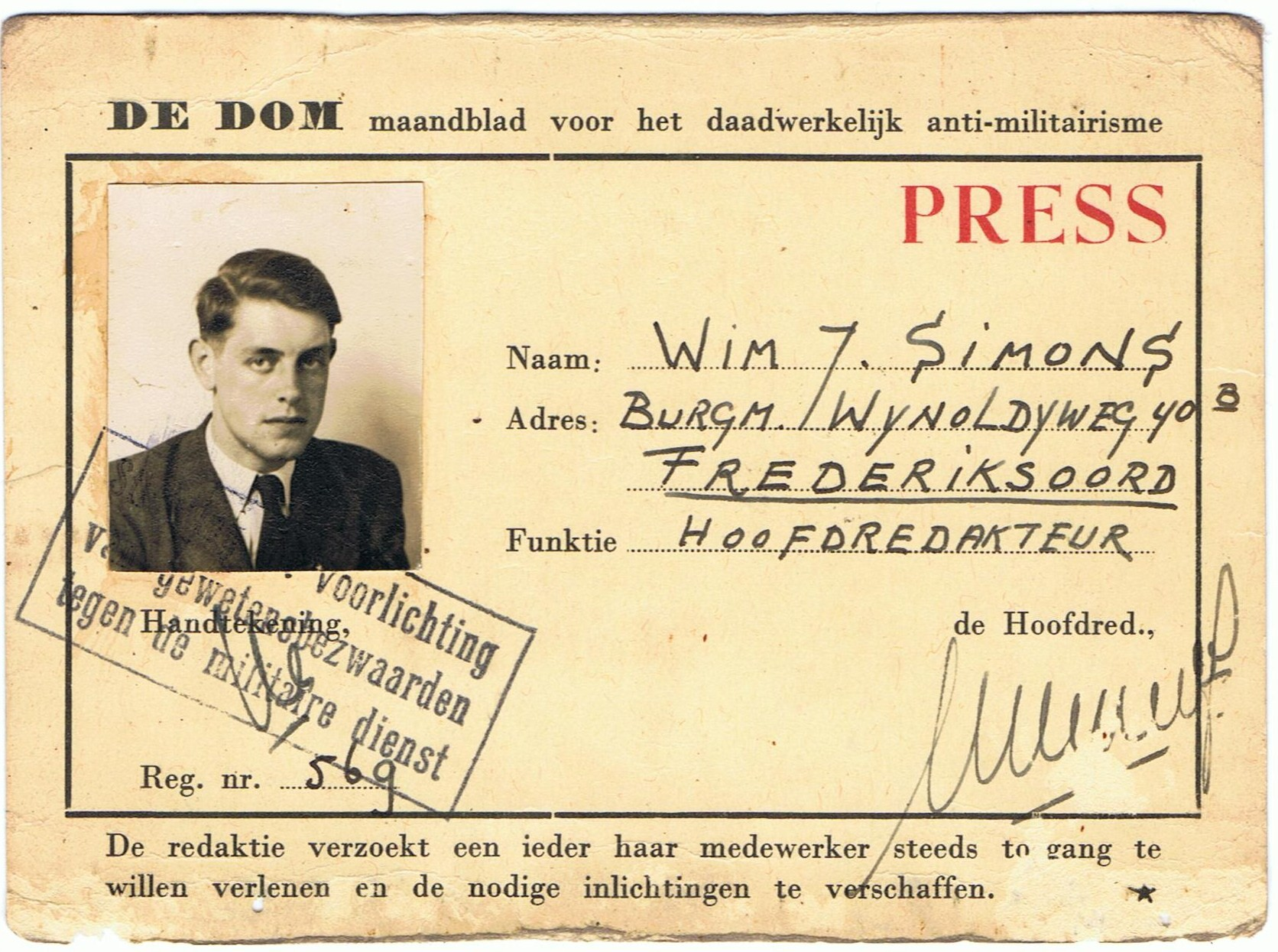 Press card of Wim Simons, De Dom, 1948 THE DOM monthly magazine for actual antimilitarism __________________________________________________ PRESS Name: Wim J. Simons Address: Burgm. Wynoldweg 40B Frederiksoord Function: Editor-in-Chief Signature, the Editor-in-Chief, [initialed] [signed] [stamped:] Foundation [for?] education of conscientious objectors against military service Reg. no. 569 __________________________________________________ The editors request everyone to always grant their employee access and to provide the necessary information.